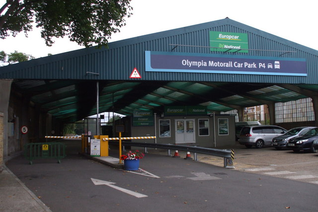 Kensington Olympia Motorail Terminal (former) Just about all evidence has gone from this former London railway terminal for services to Scotland that opened in 1955. Amongst other things the area is now partially a car rental firm.